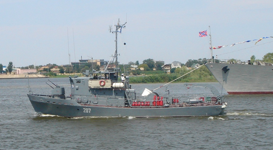 A boat from Caspian Flotilla